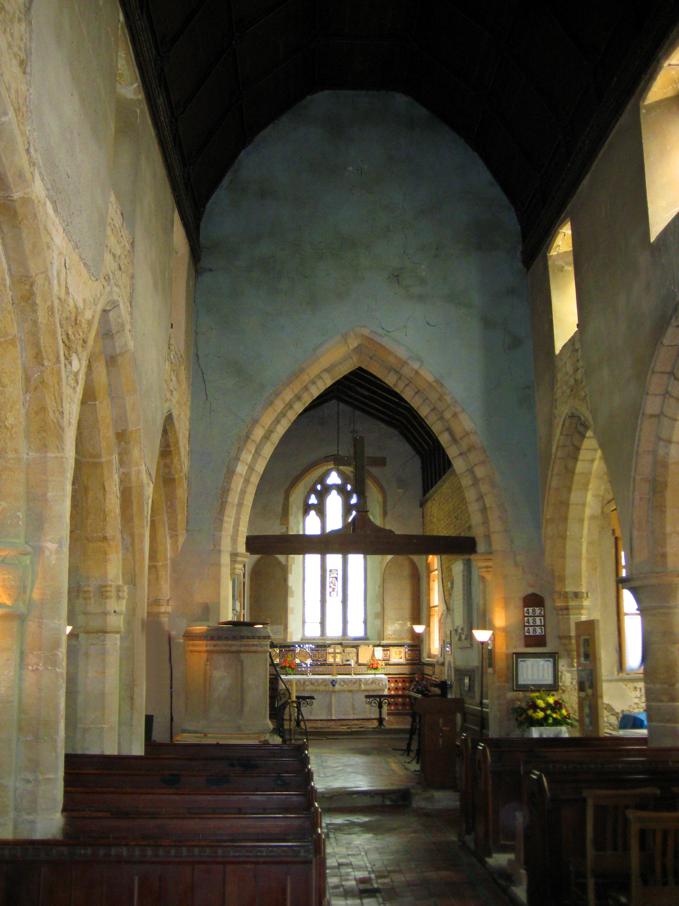 The interior of St Andrew's Church, Woodwalton, a 14th century church in Huntingdonshire. Declared redundant in the 1960s, the church is not usually open due to structural problems. The church is in the care of the charity Friends of Friendless Churches. The blue painted wall above the chancel arch is something of a mystery, as a photograph from the 1940s shows a Victorian decoration (which can still be seen faintly underneath). This image was taken during the Heritage Open Weekend in September 2010 by Robert Weedon.